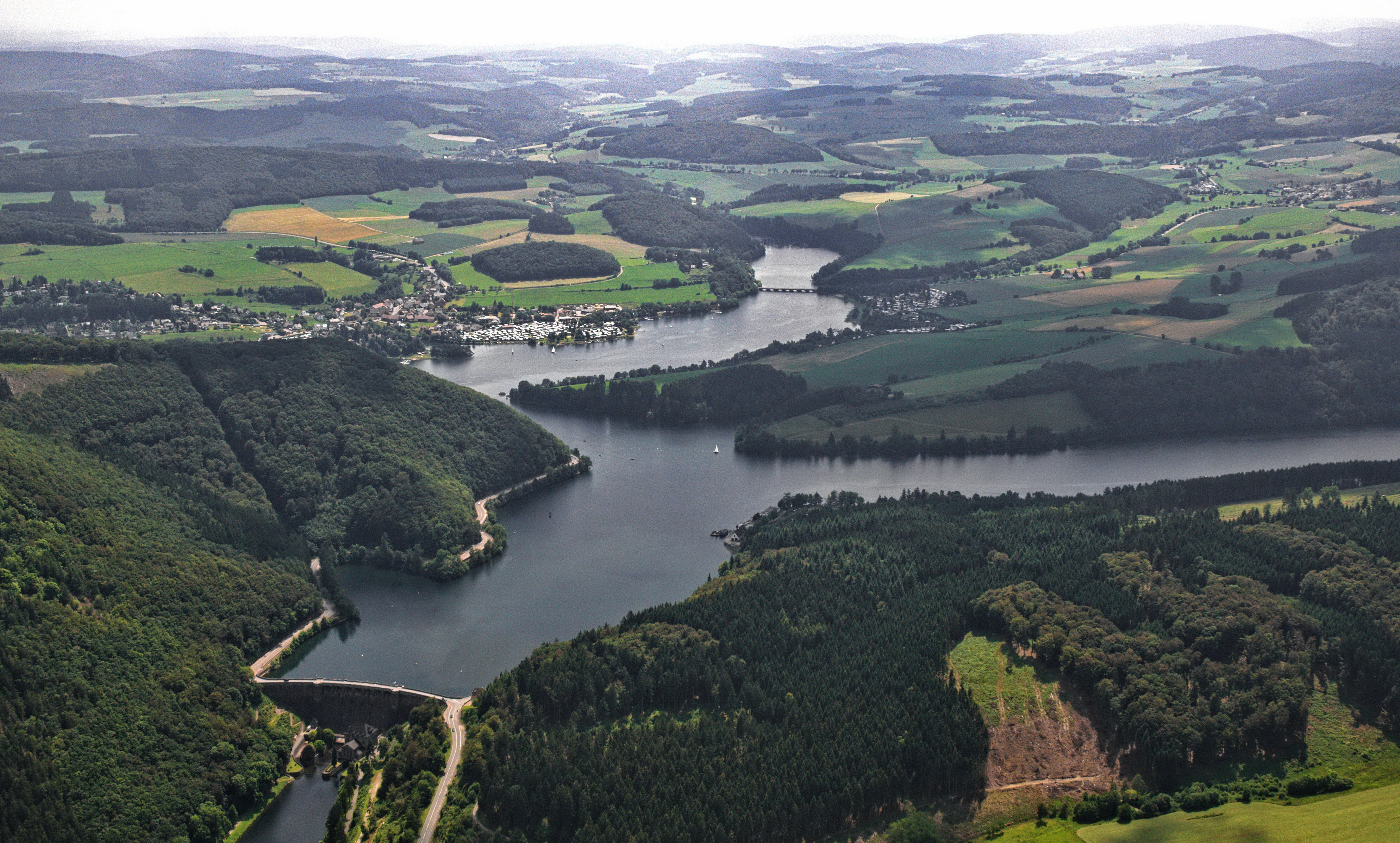 Fotoflug Sauerland-Ost: Diemelsee The making of this document was supported by the Community-Budget of Wikimedia Germany.